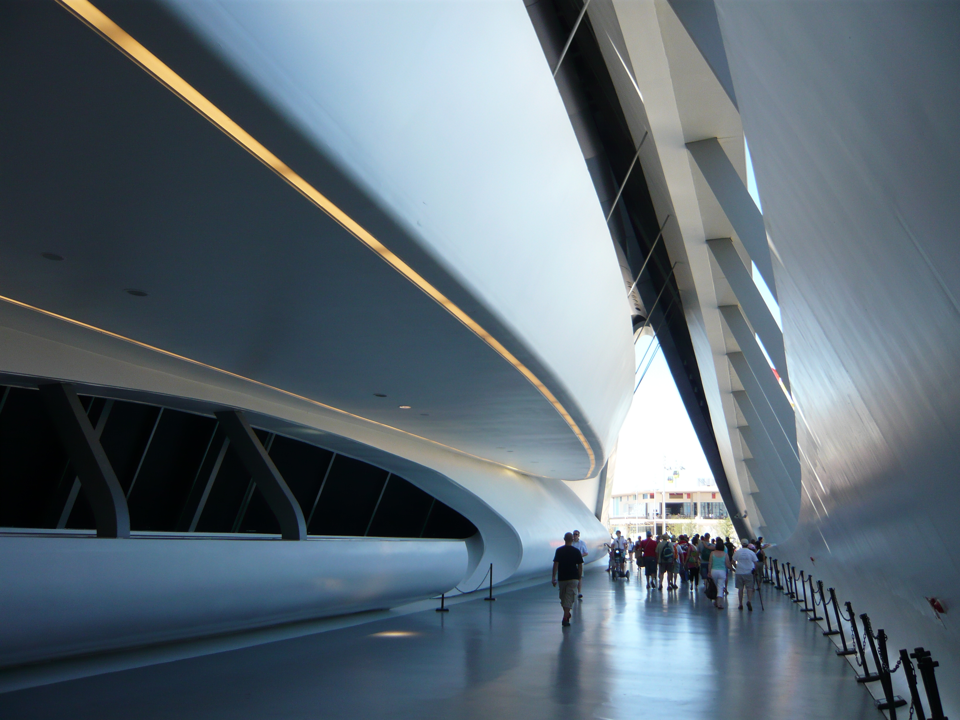 Bridge Pavillion of the International Exposition Zaragoza 2008